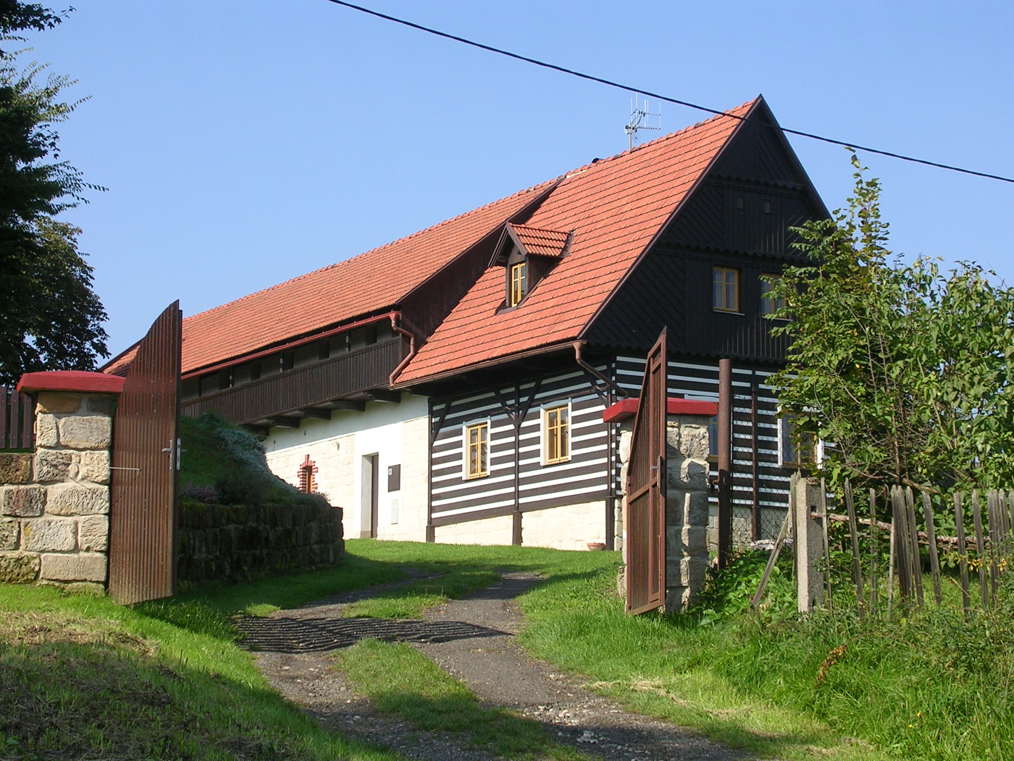 Všeň-Ploukonice, Semily District, Liberec Region, the Czech Republic. The house No 15.